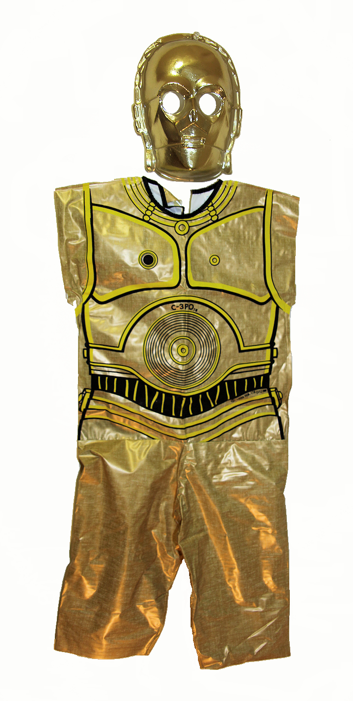 A costume and mask manufactured by the Ben Cooper, Inc. Halloween costume company in 1977 depicting the C-3PO character from the Star Wars motion pictures.